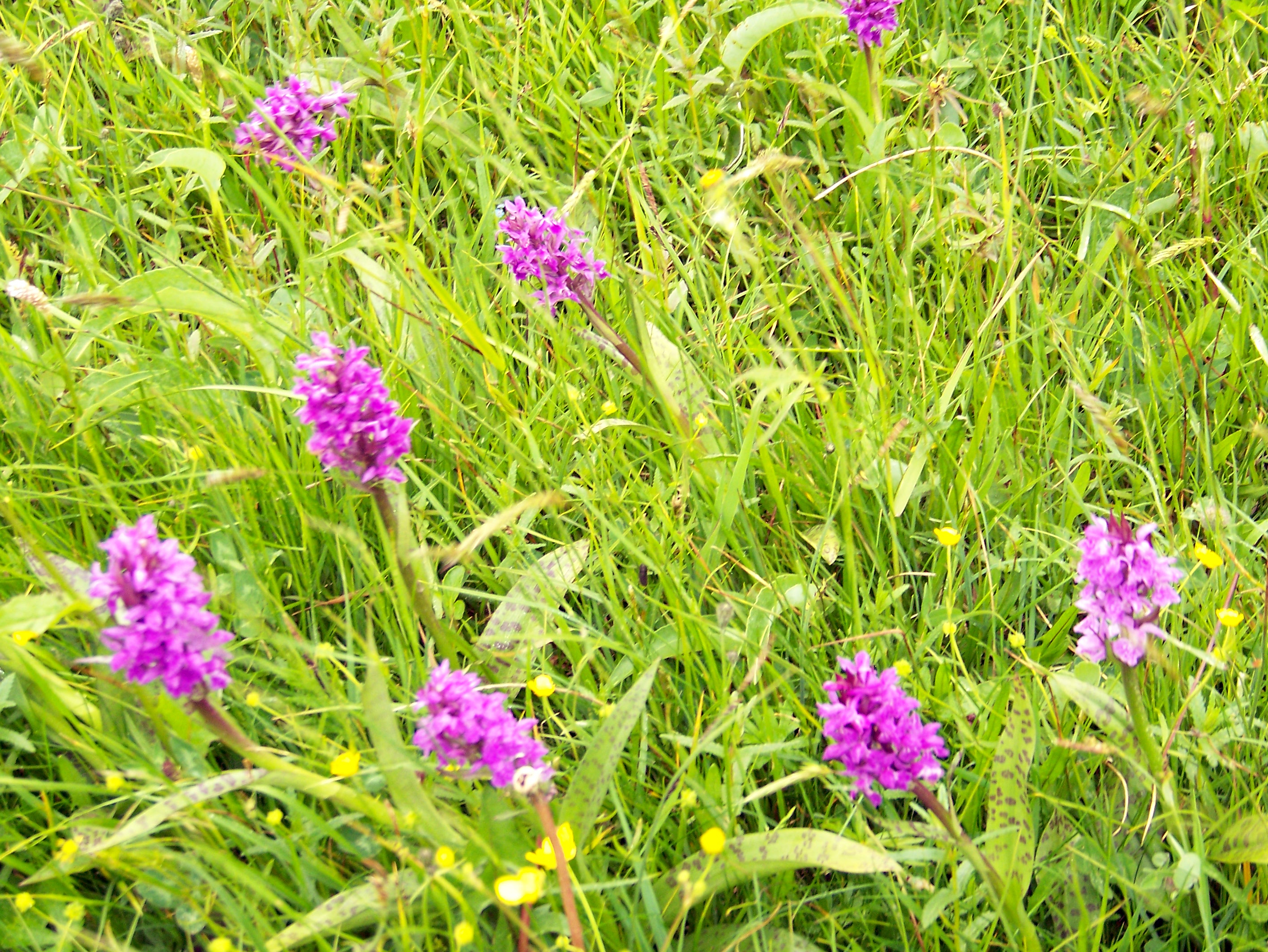 Geisingberg meadows, western marsh orchid (Dactylorhiza majalis)